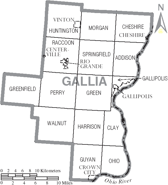 Map of Gallia County, Ohio, United States with township and municipal boundaries